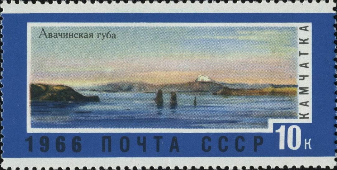 A USSR stamp